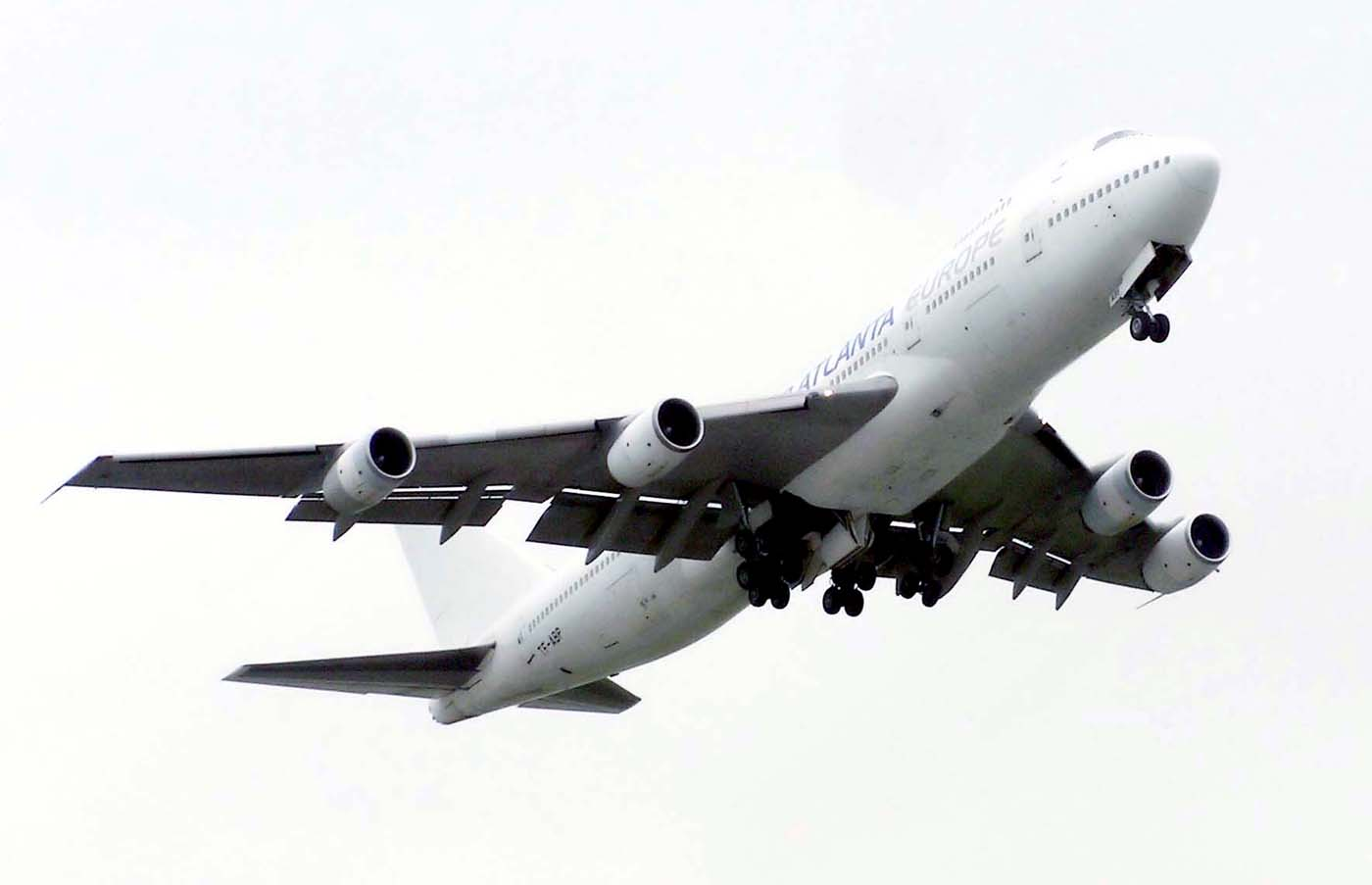 Air Atlanta Europe Boeing 747-200 taking off from Brize Norton RAF Base, Oxfordshire, England. Icelandic registration TF-ABP. Photographed by Adrian Pingstone in April 2005 and released to the public domain.